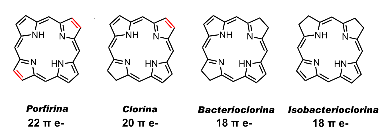 estructures of profhyrin, chlorin, bacteriochlorins and isobacteriochlorins